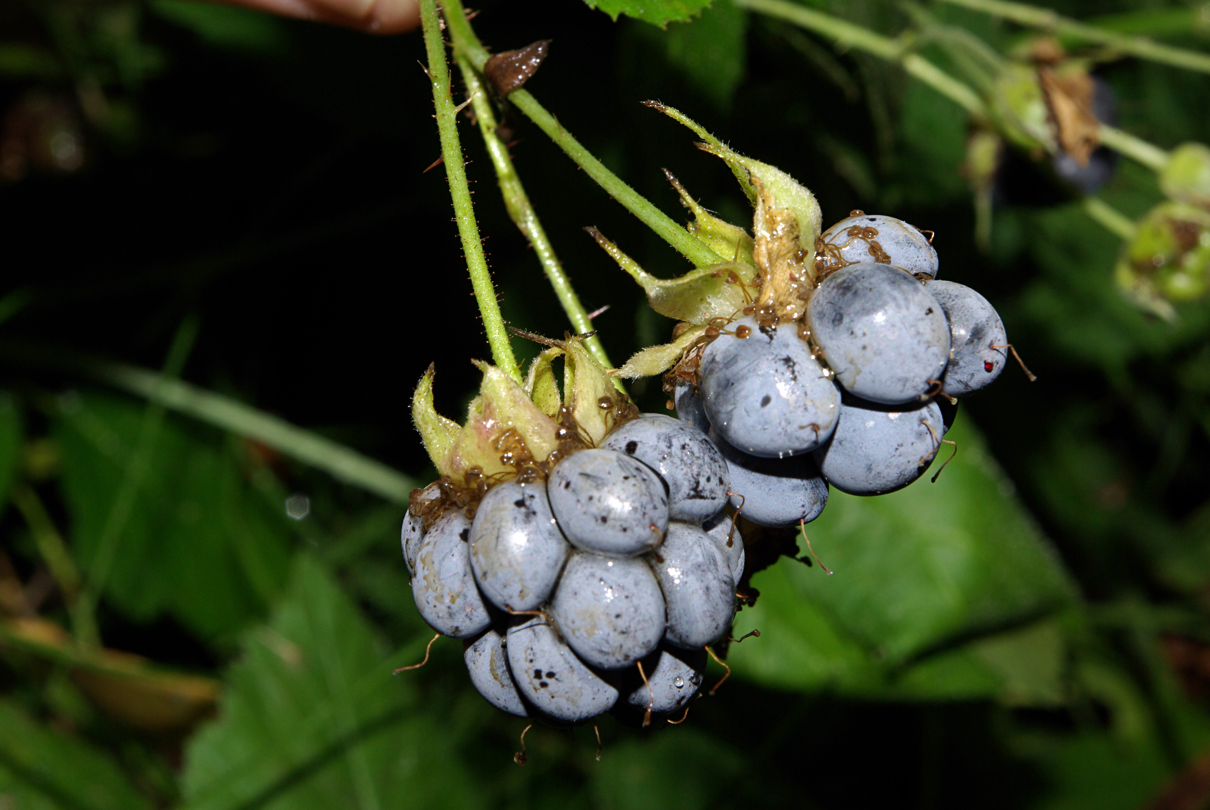 Fruits of European Dewberry (Rubus caesius) near Cistierna, León (Spain)